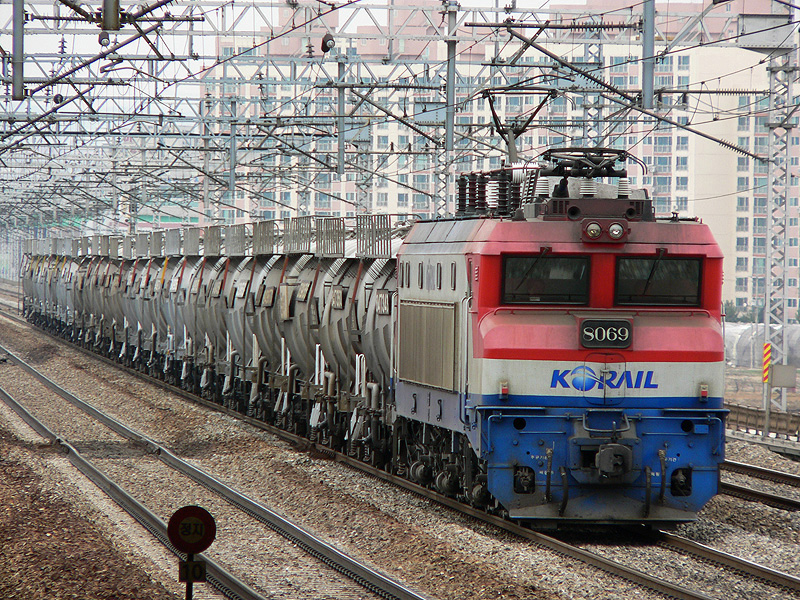 KORAIL 8000series electric locomotive (Second Type)